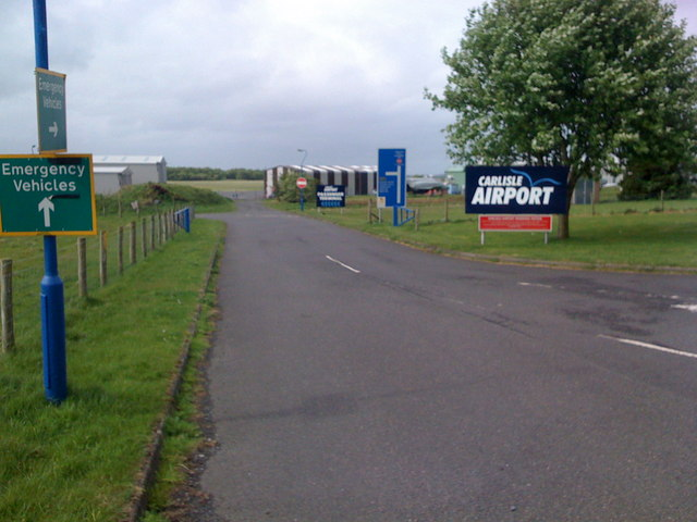 Carlisle Airport, Cumbria, England. Major development is planned for Carlisle Airport and could see the introduction of freight and passenger services in the future, along with the possible construction of a new runway to be able to accept larger aircraft, as part of a £21 million development. If the development is completed as projected, then Ryanair have expressed an interest in using the airport as a hub.